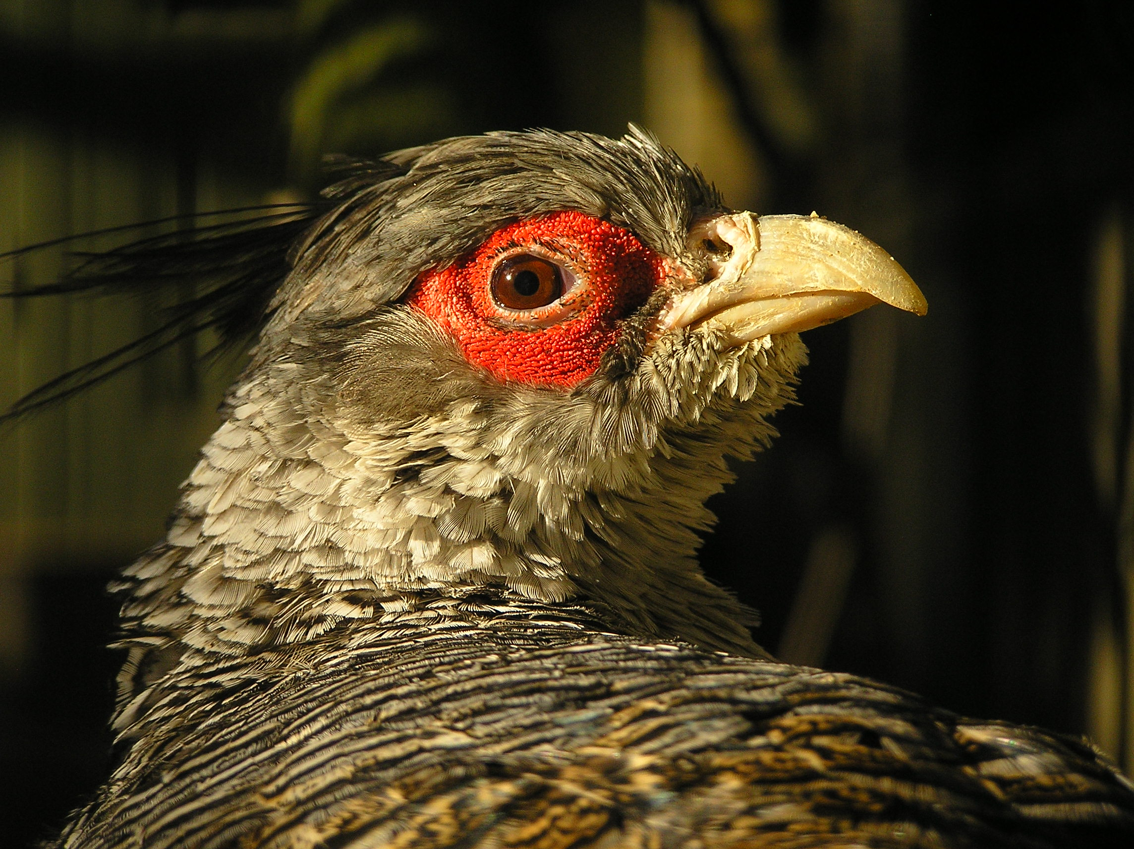 Cheer Pheasant, Catreus wallichi